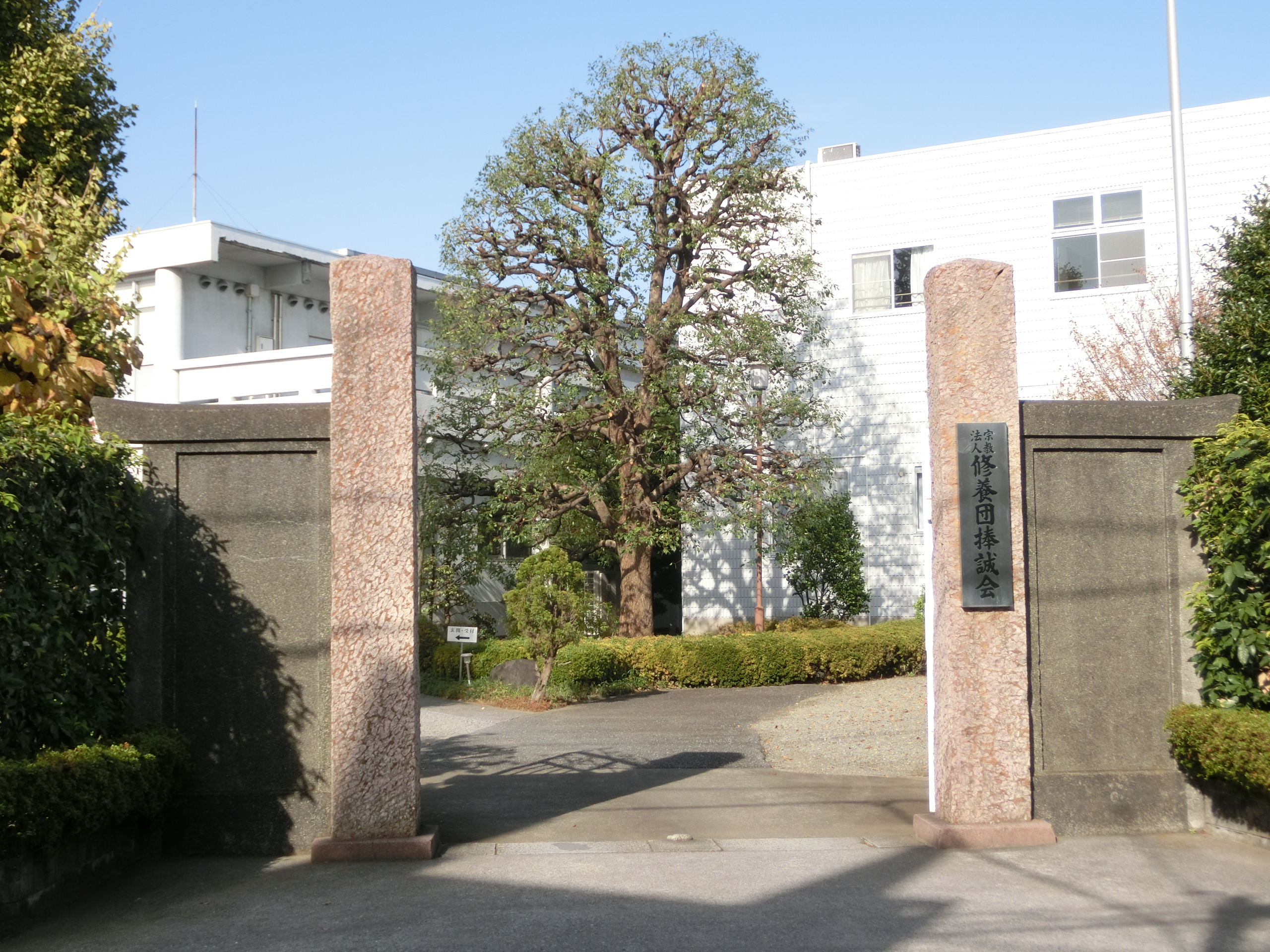 Shuyo-dan Hoseikai Headquarters